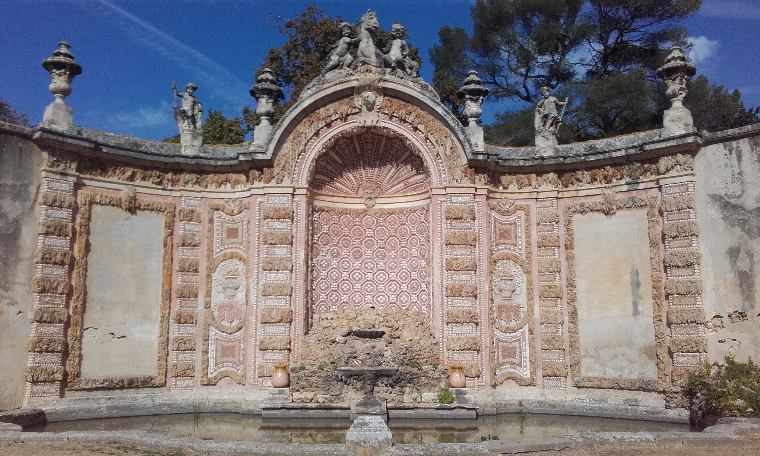 Fountain "buffet d'eau" at the Castle of "la Mogère"